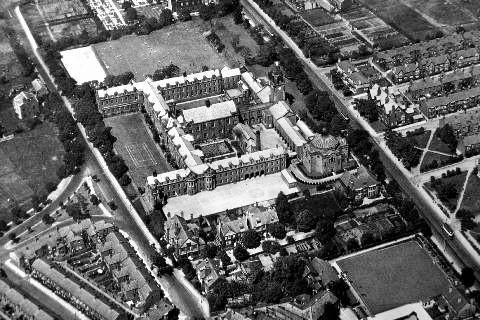 Taken sometime in the early/mid 20th century